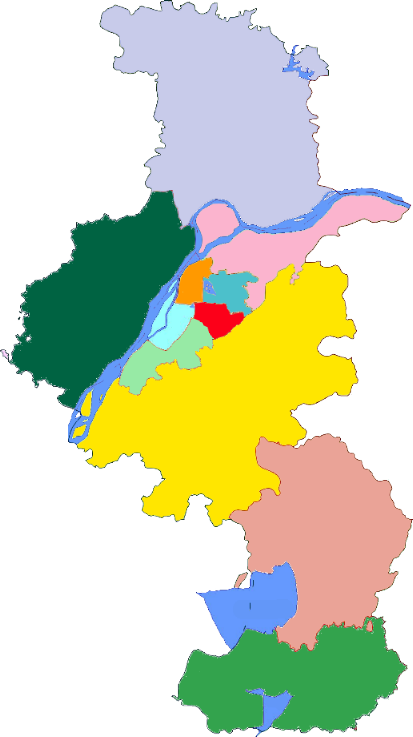 Subdivision of Nanjing